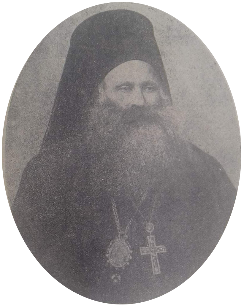 Synesius of Skopje c. 1900